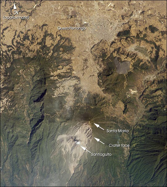 Quetzaltenango and Santa Maria Volcano, Guatemala